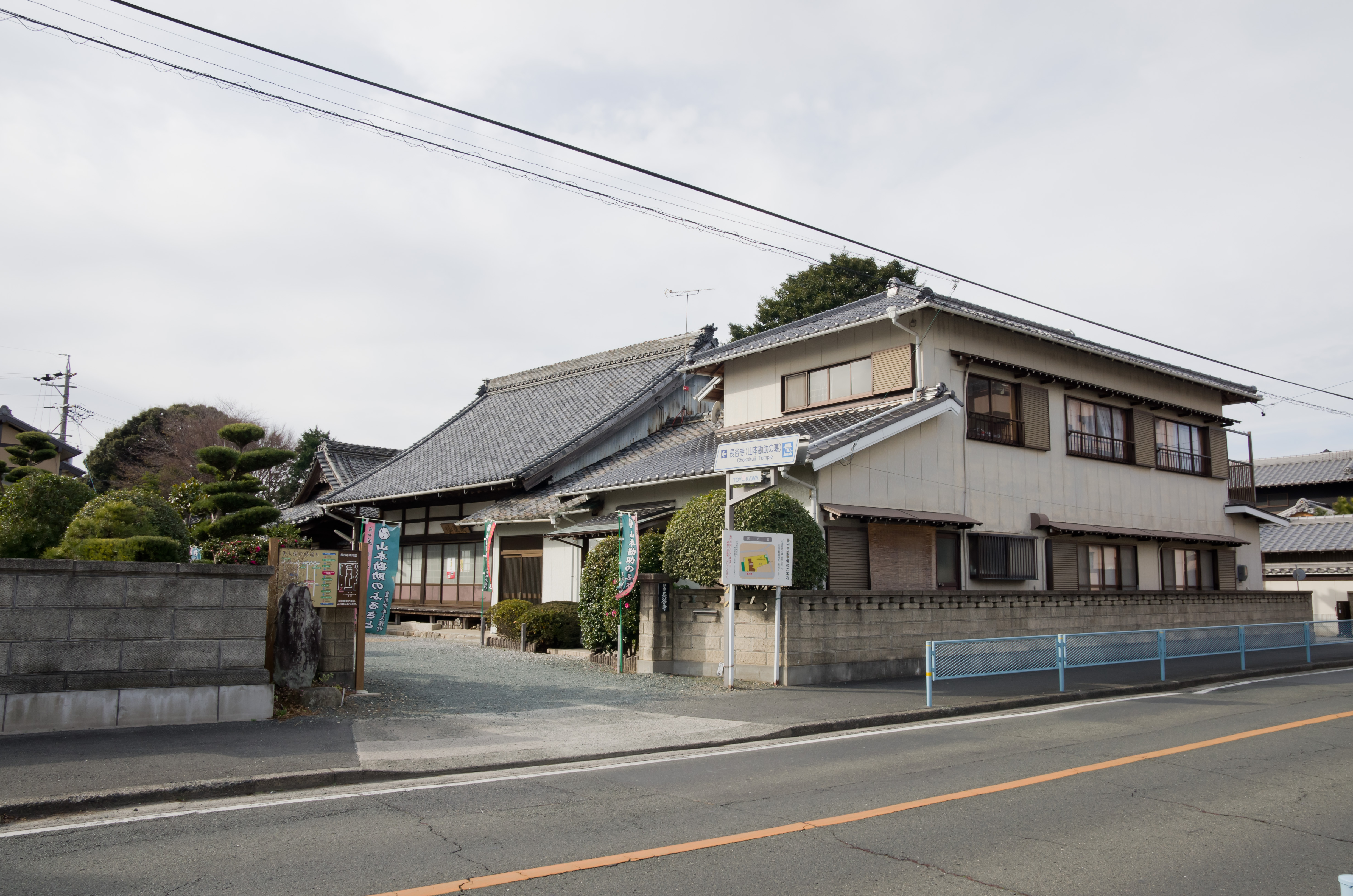 Chokokuji Temple in Toyokawa, Aichi, Japan